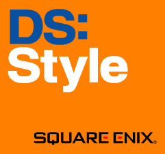 This is the logo of DS:Style, a series of educational games published by Square Enix for the Nintendo DS.